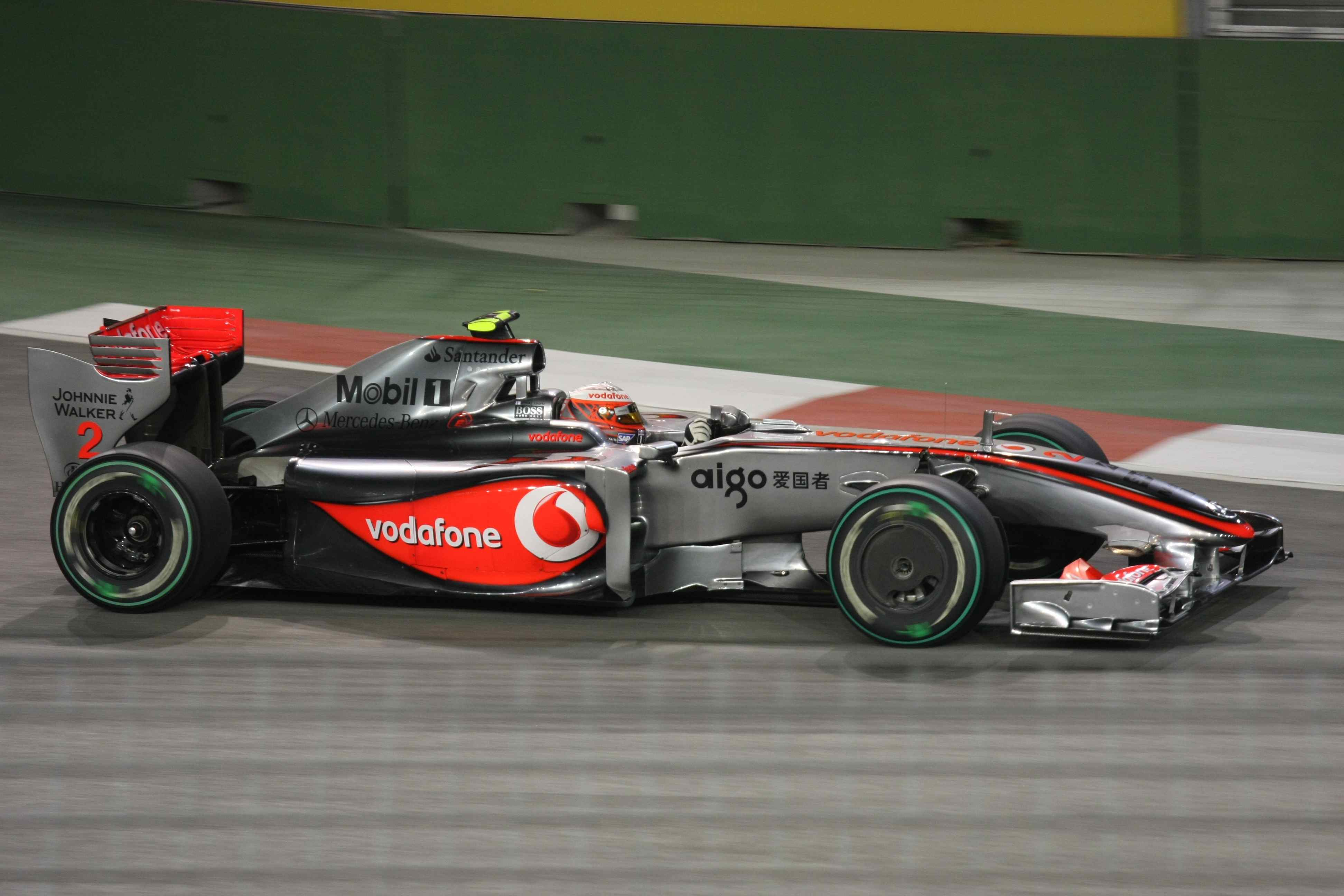 Heikki Kovalainen driving for McLaren at the 2009 Singapore Grand Prix.